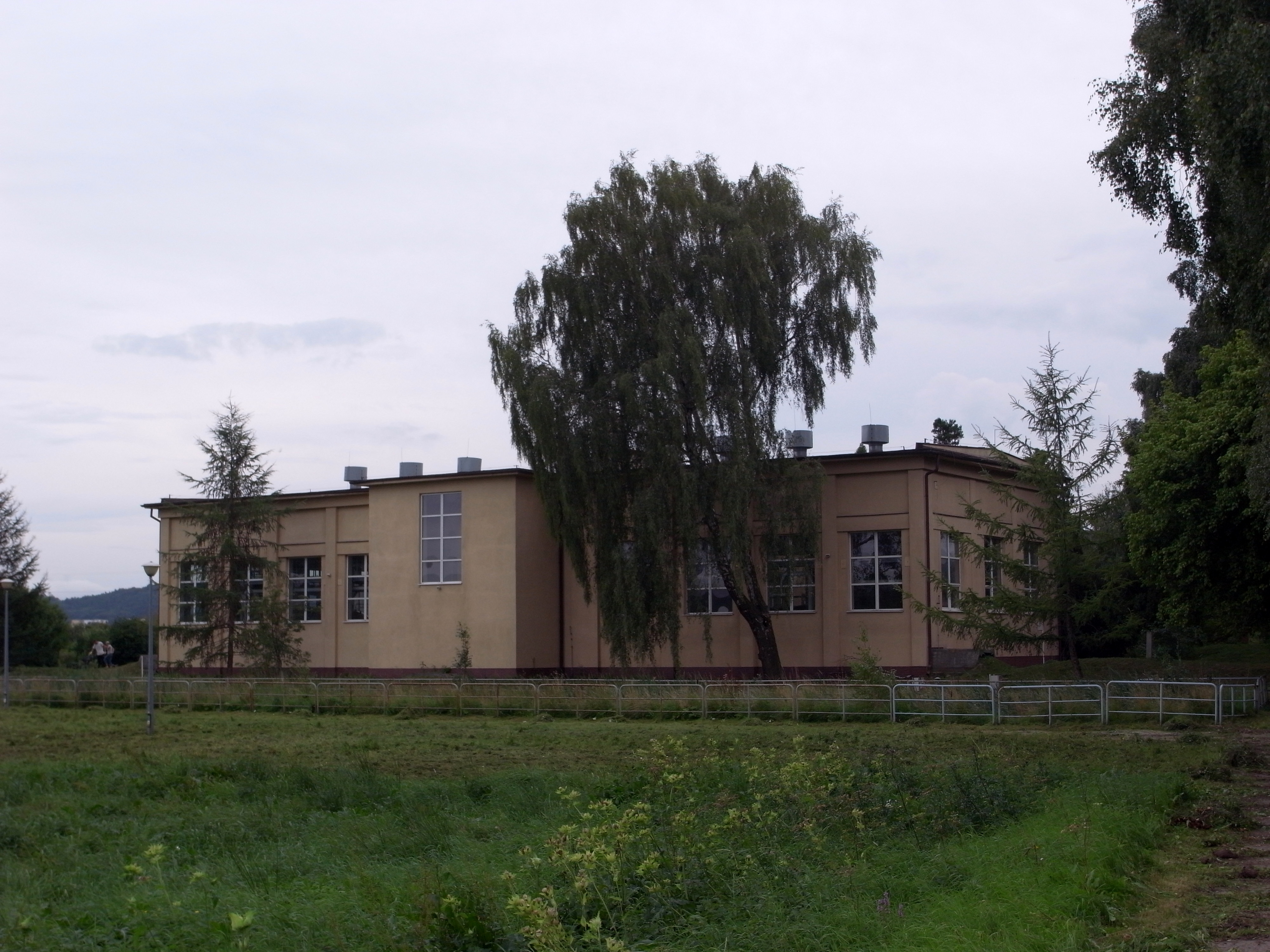 Rumia Janowo. Pumping station built in 1934. Erika Steinbach's birth place on 25 July 1943 during german-nazi occupation of Poland. The place of birth was flat pumping station chief - Paweł Obersieg,family friend.